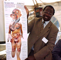 Prof Peter Odhiambo uses the gory "Smoker's Body" poster to explain the dangers of tobacco smoking and its effects on the human body.